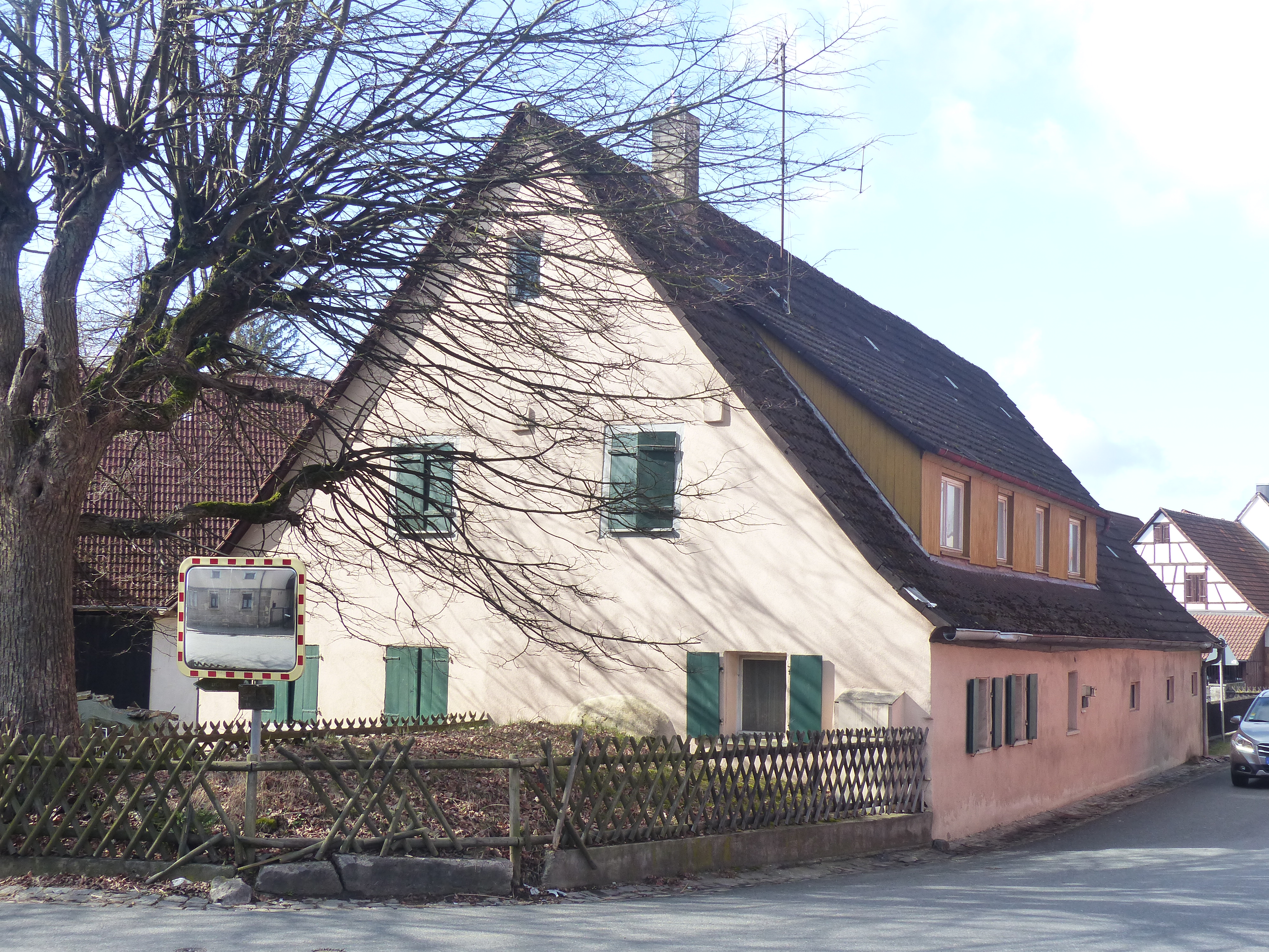 A byre-dwelling house in the village Frohnhof, a part of the municipality Eckental